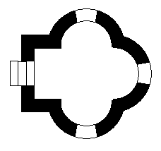 architectural layout of a Trikonchos (Triconchos, Dreikonchenanlage, Dreikonchenchor)